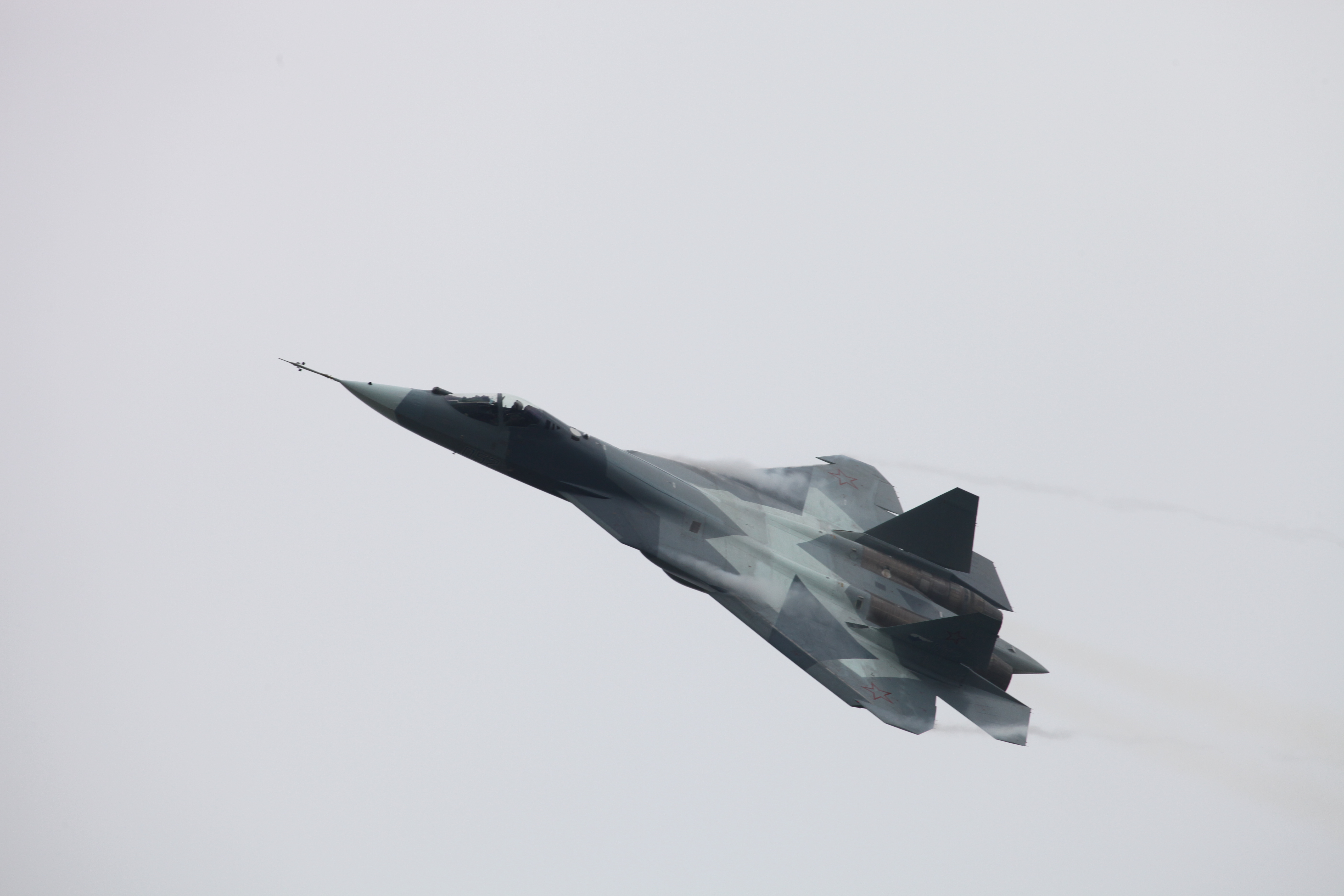 T-50 PAK FA at the MAKS-2013